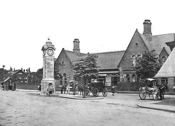 Photograph of Didsbury Railway Station c.1910 with the memorial clock to Dr.J.Milson Rhodes (erected 1910) and horse-drawn cabs waiting outside